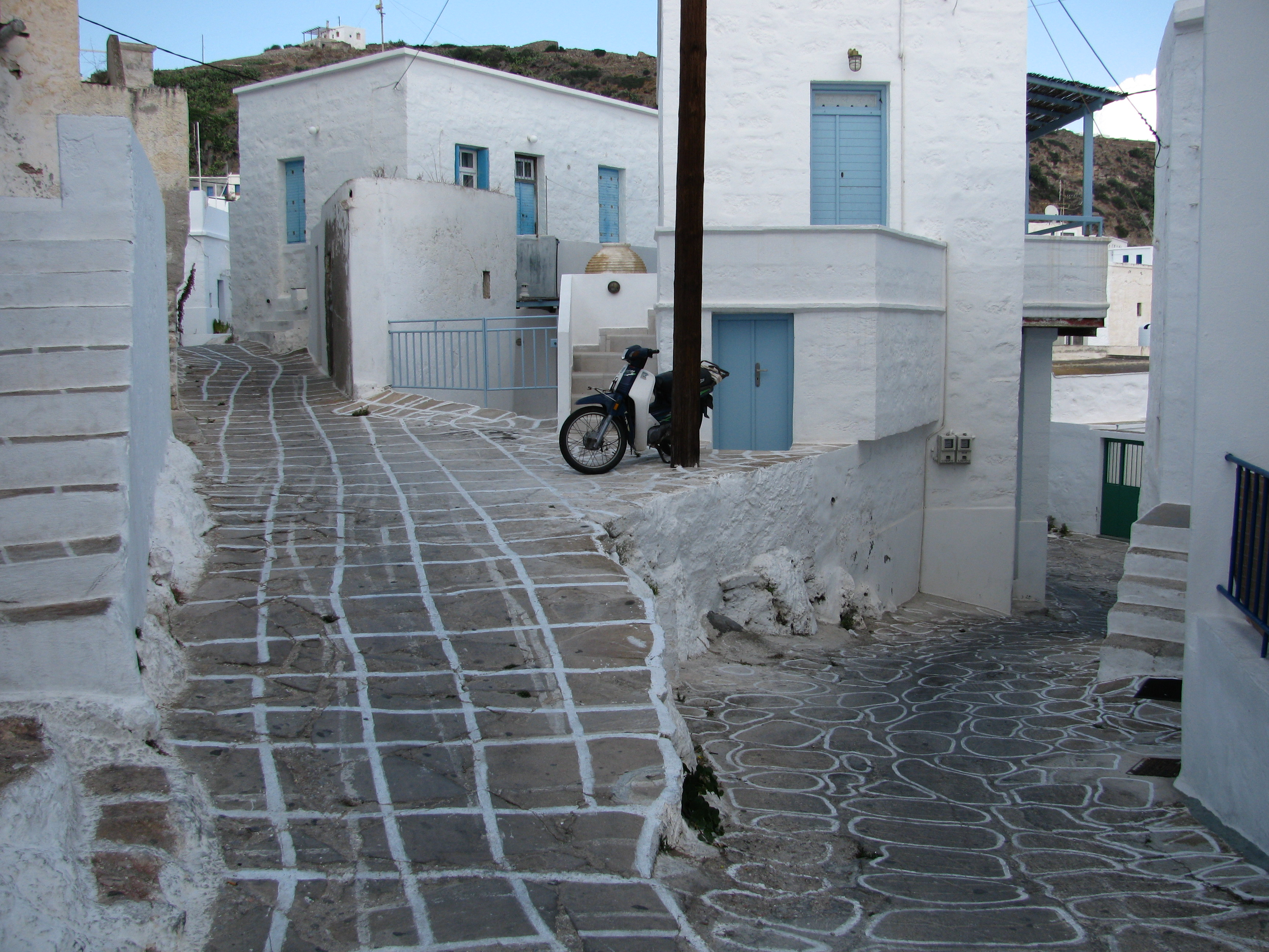 Kimolos Village